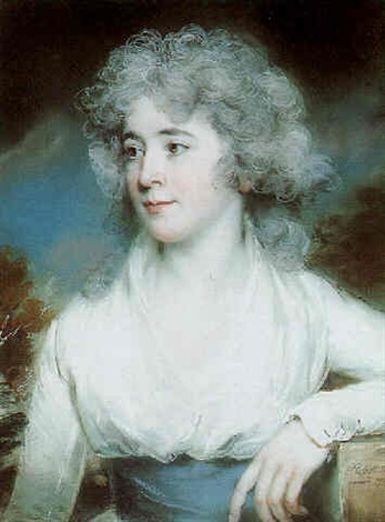 1795 - John Russell portrait of Miss Georgina Jane Keate